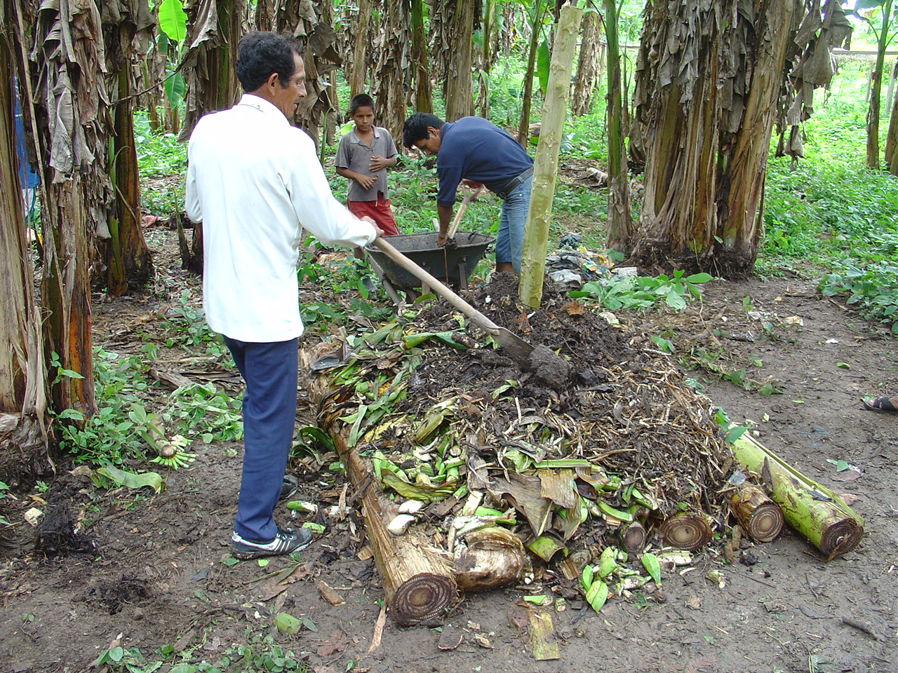 The compost pile preparation of the Ecuador Composting Method. The biomass being embeded on the stalks of banana (pseudo-trunk) and cover by a layer of mud. In the middle central pale visible. Monte de los Olivos, Ucayali, Peru.